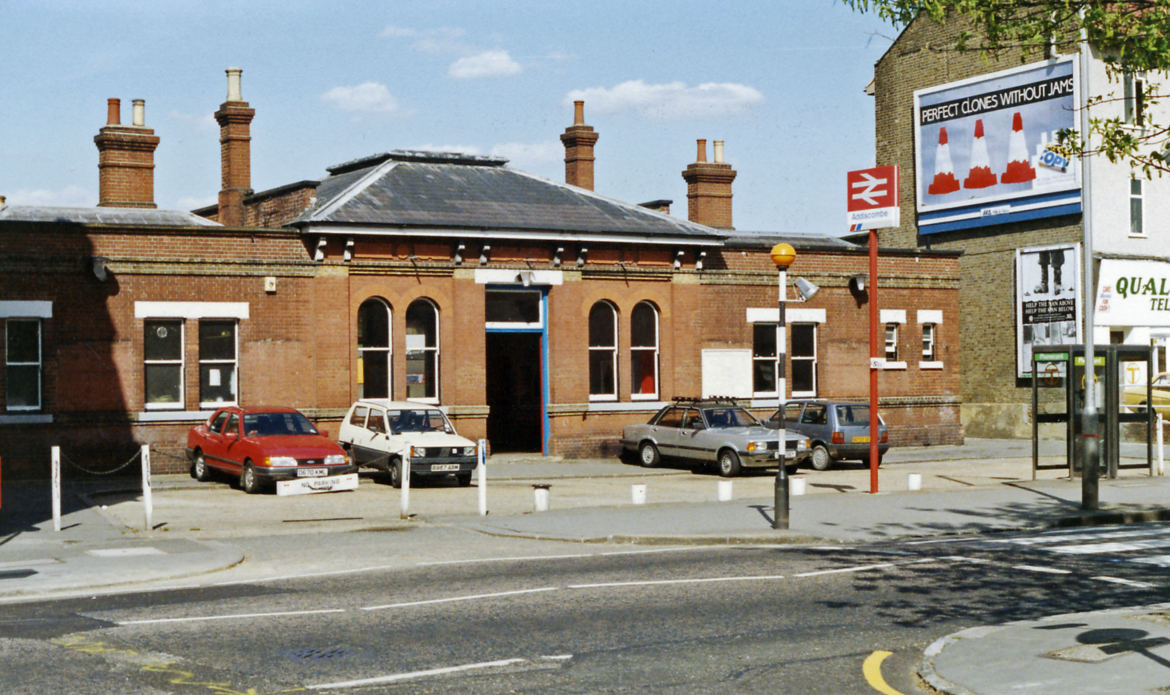 Entrance to Addiscombe (Croydon) station, 1990. View northward on Addiscombe Road, towards Elmers End and London: ex-SE&C terminus of the branch from Woodside and Elmers End on the suburban system from Charing Cross and Cannon Street via London Bridge and Lewisham. It was closed on 31/5/97, in anticipation of substitution by the Croydon Tramlink, which opened in May 2000.